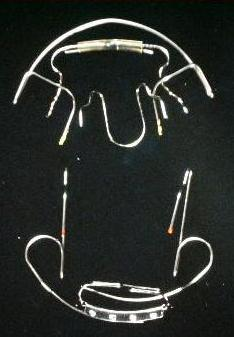 wire components of Bimler´s elastic oral adaptor of type A